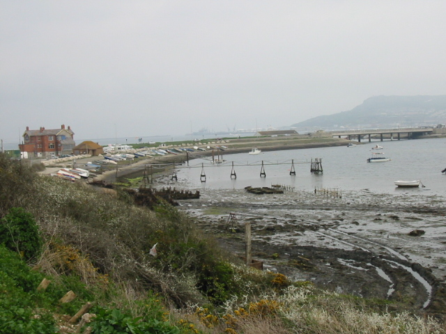 Ferrybridge.